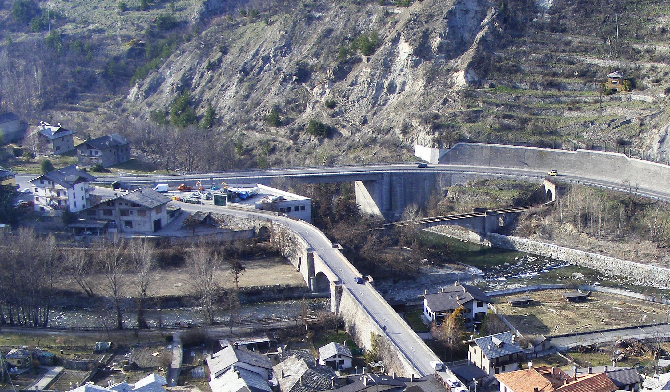 Savara - Dora Baltea confluence (Villeneuve, AO, Italy)